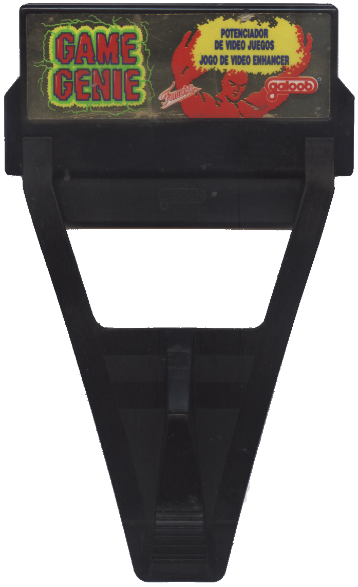 FAMOSA spanish/portuguese version of Game Genie for Nintendo Entertainment System